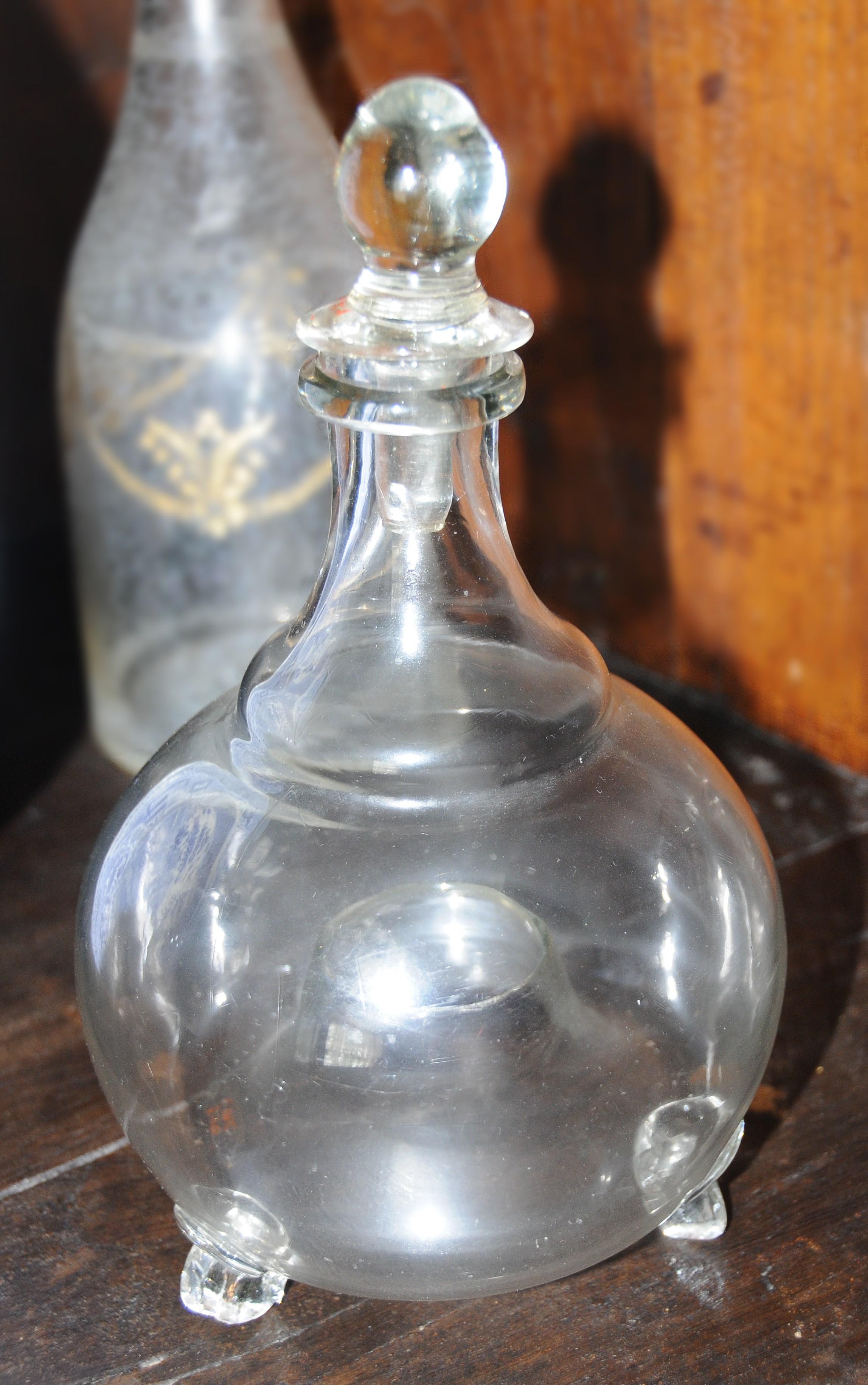 Trap for flies in Camilo Castelo Branco House, Seide, Famalicão, Portugal.